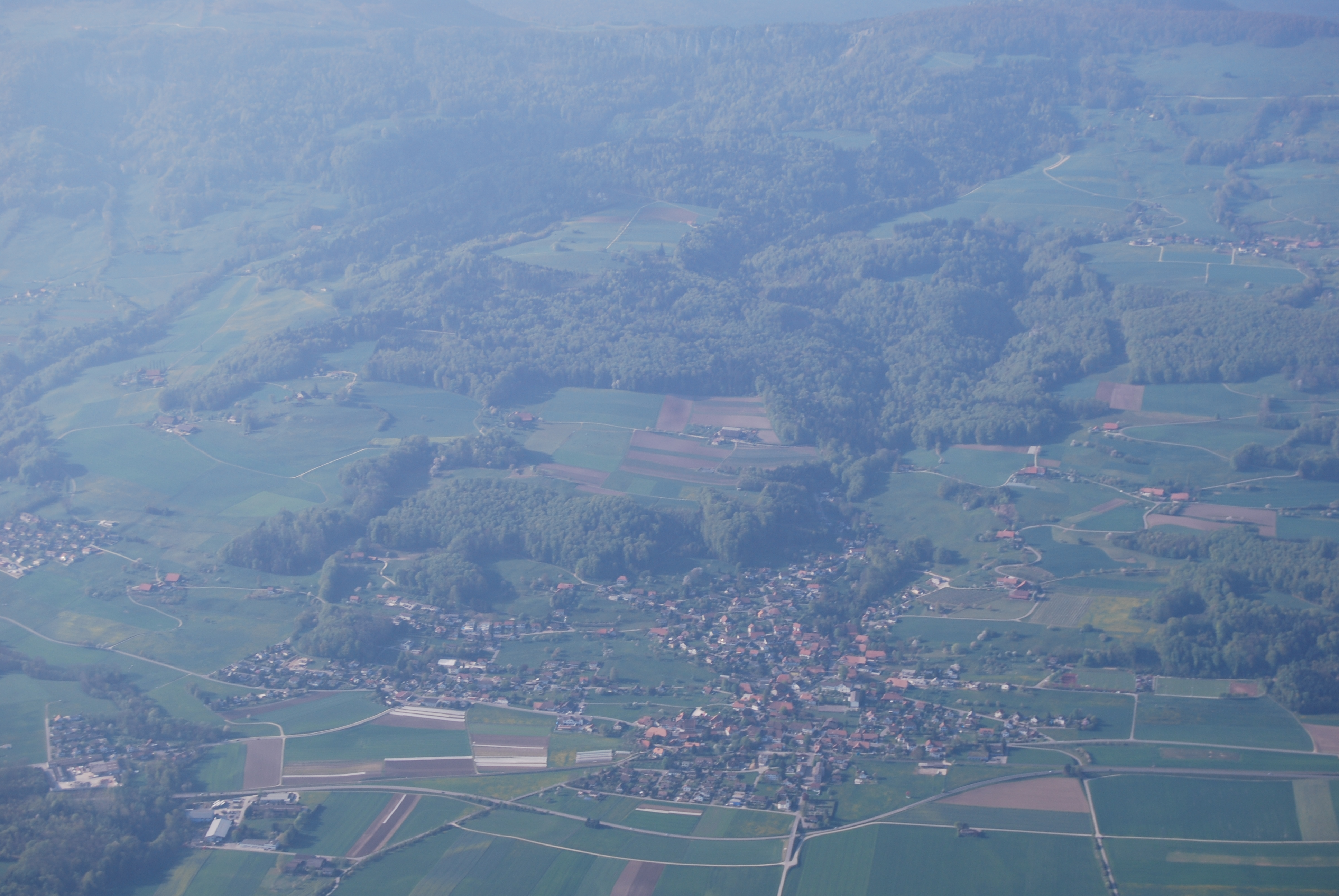 Attiswil and Farnern, canton of Bern, Switzerland